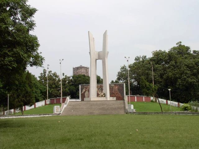 Rajshahi University Central Shaheed Minar